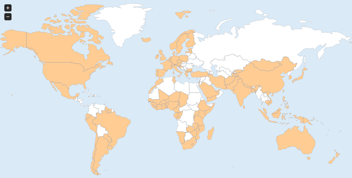 Worldwide midwives